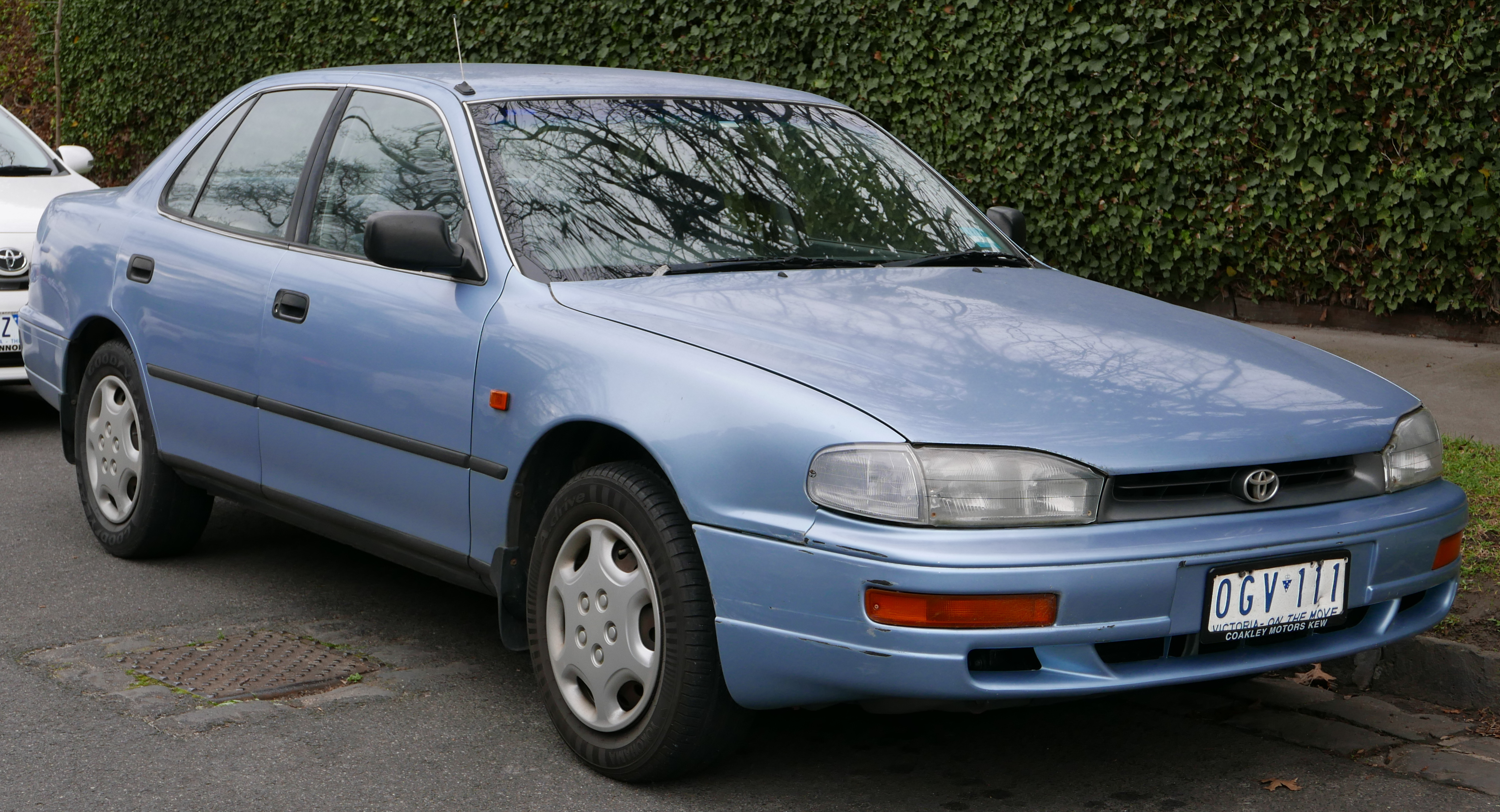 1997 Toyota Camry (SXV10R) Intrigue sedan. Photographed in Kew, Victoria, Australia. Vehicle registration enquiry results Jurisdiction Victoria Registration OGV111 Chassis code 6T153SK1009099501 Engine code 5S4179176 Compliance date 1997-06 Year of manufacture 1997